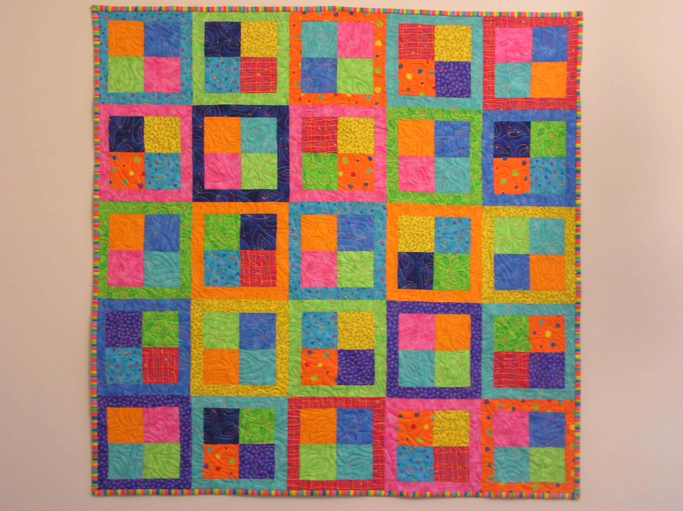 bright colors for a bright babyJonathan's baby quilt